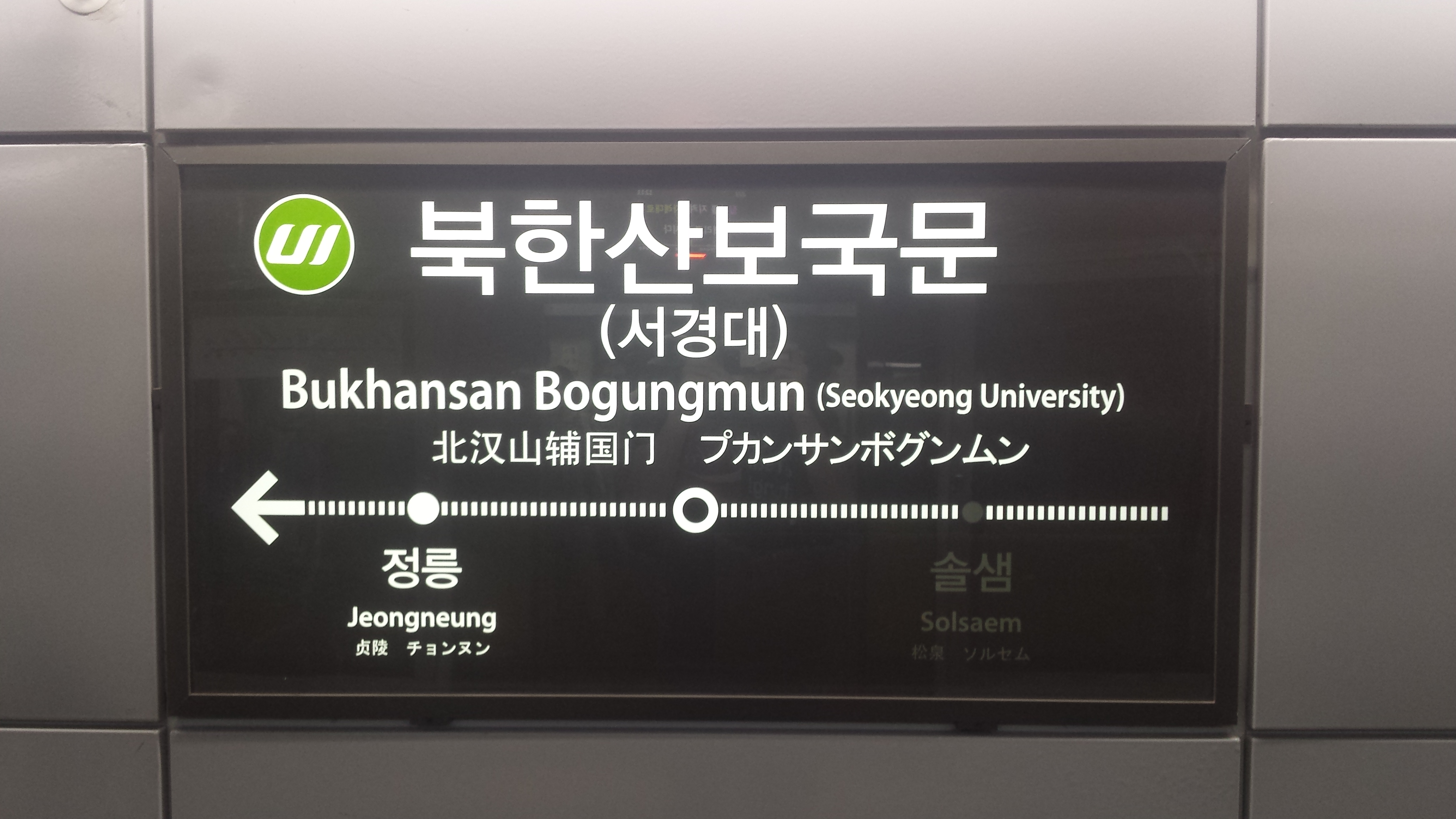 Bukhansan Bogungmun station sign